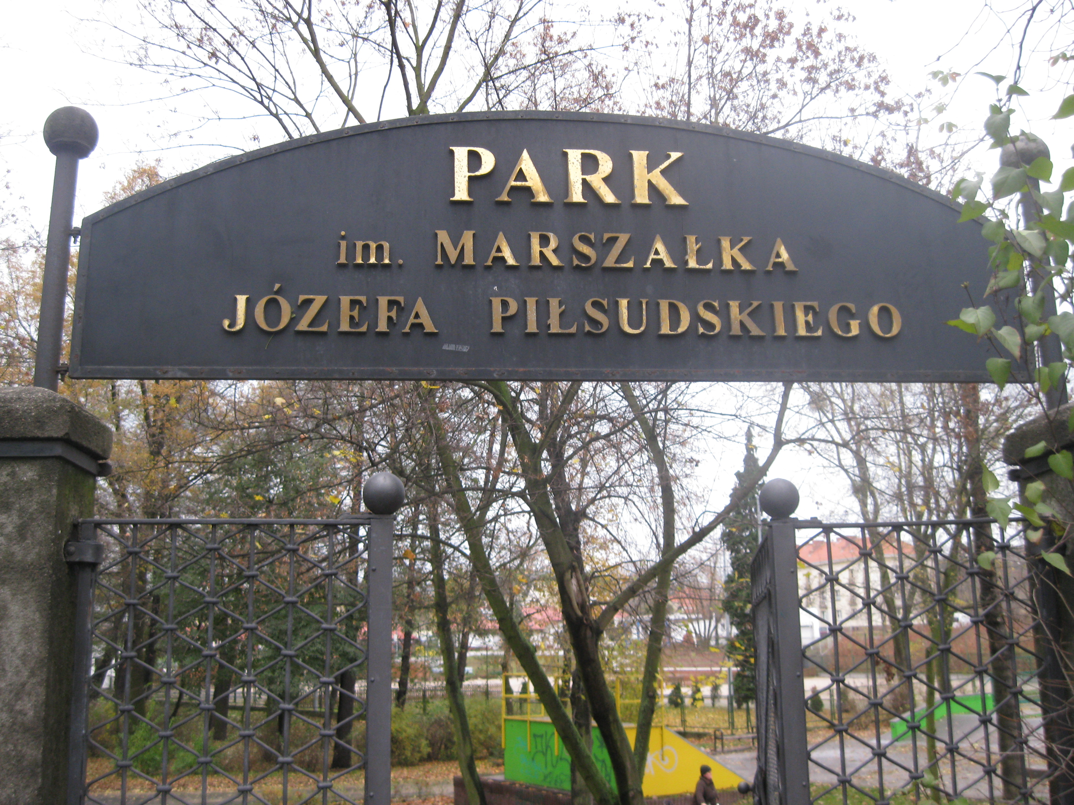 Signboard above the entrance to the Józef Piłsudski park (Września, Poland)